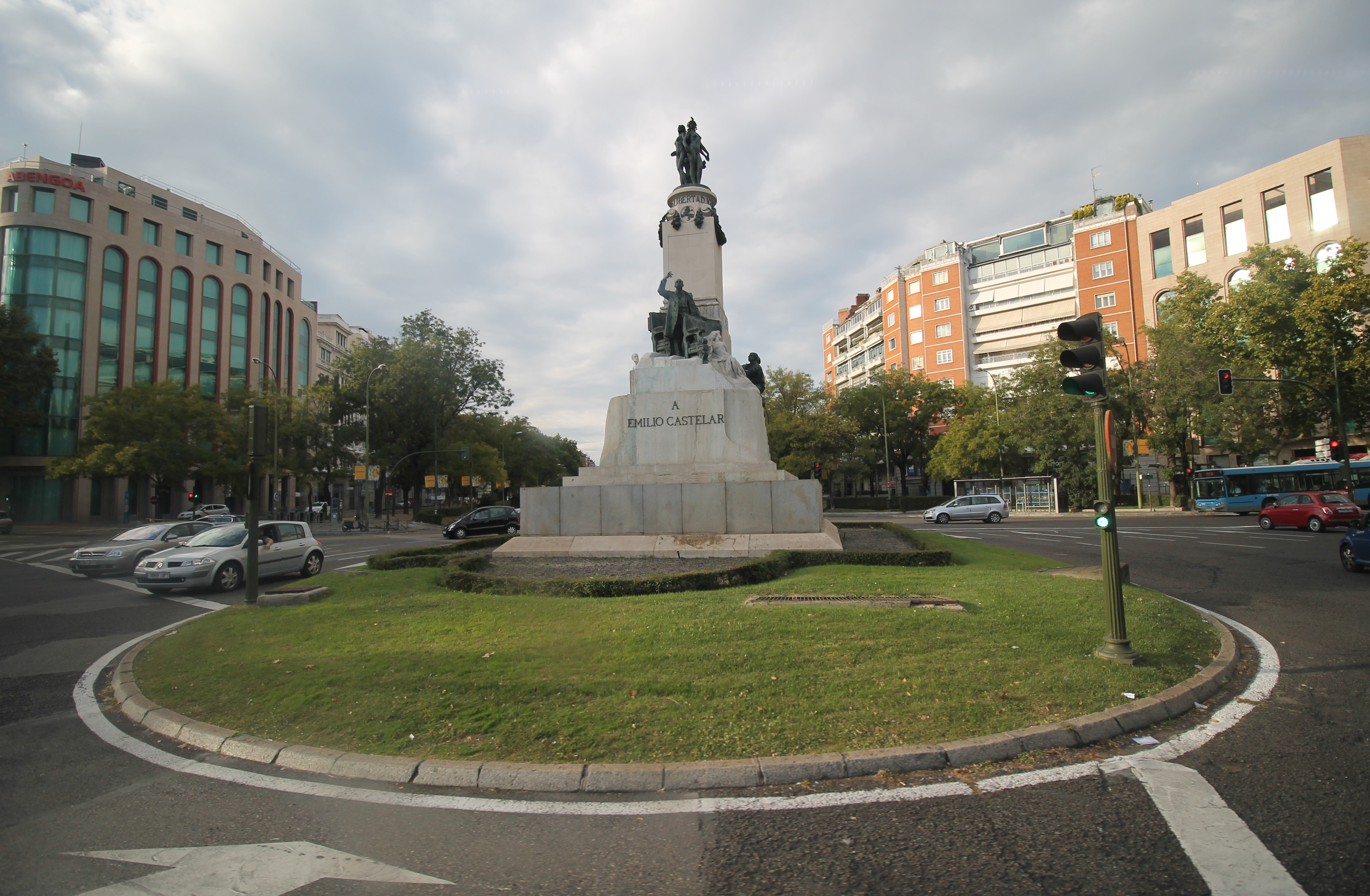 View from Plaza de Emilio Castelar (square) in Madrid (Spain).